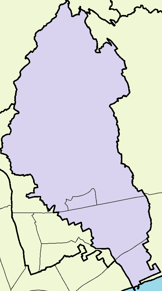 Ayios Athanasios Municipality with quarters.